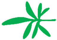 Leaf morphology pedate(extraction of Leaf_morphology_no_title.png)